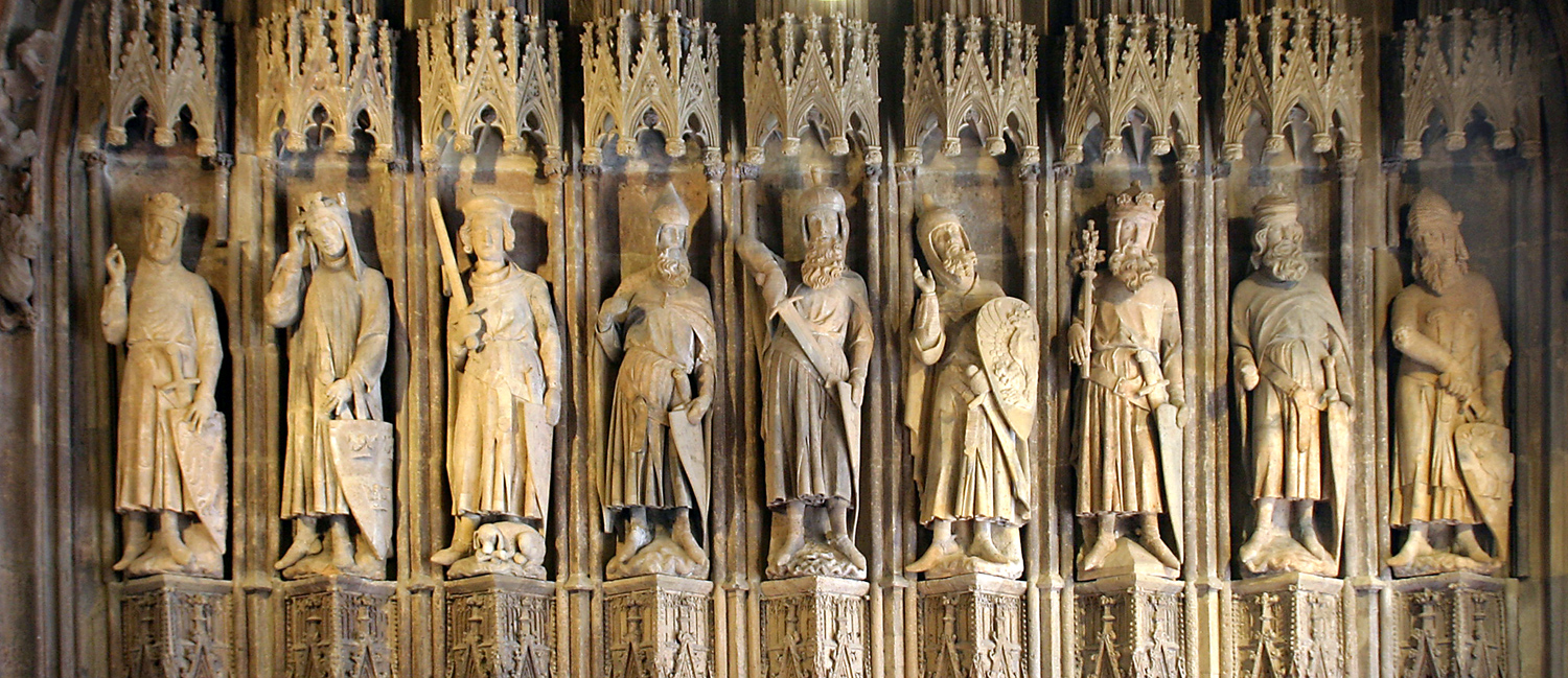 Nine Worthies – from the left to right the figures presented are Charlemagne, King Arthur, Godfrey of Bouillon, Julius Caesar, Hector, Alexander the Great, David, Joshua and Judas Maccabeus.